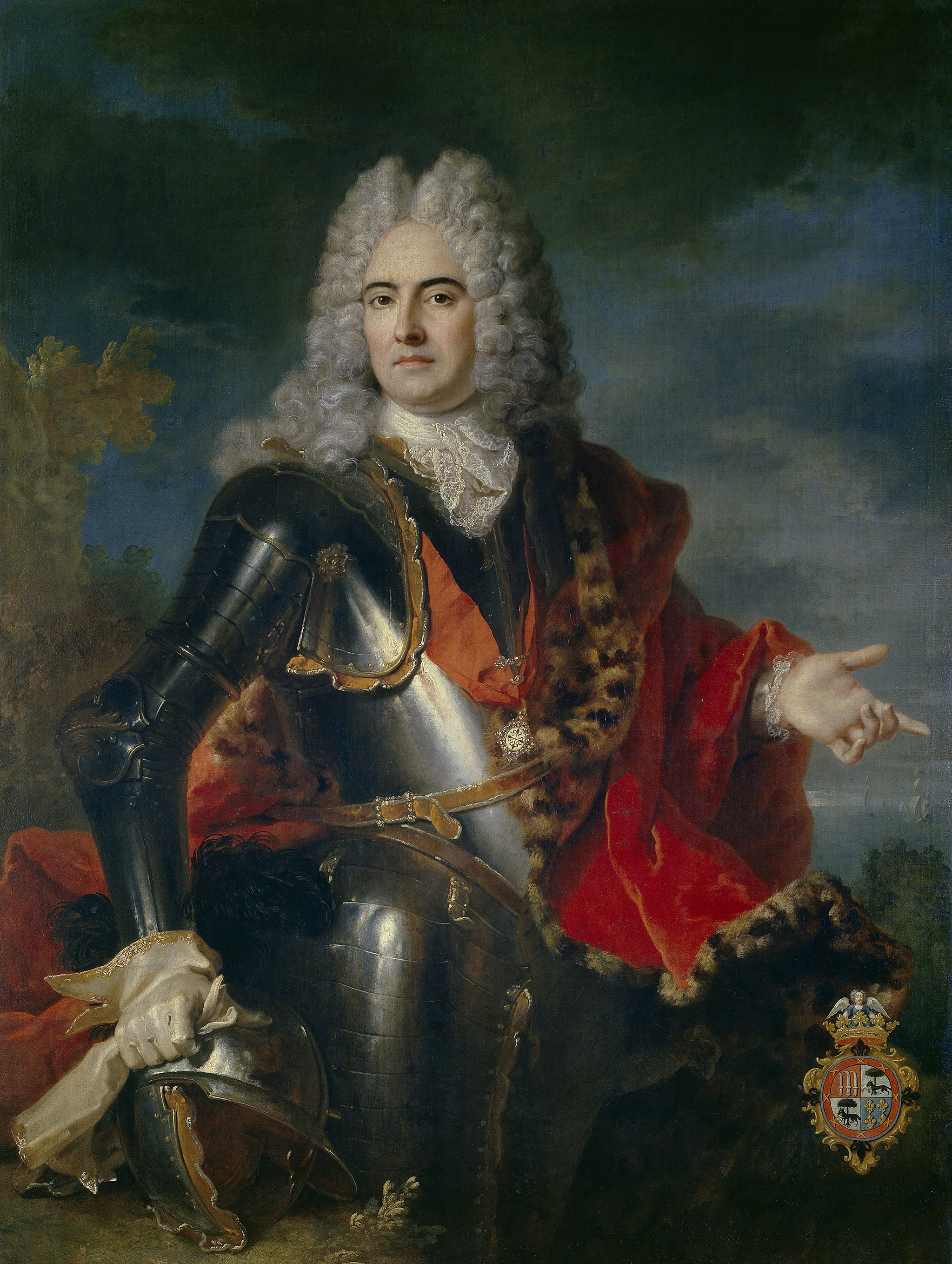 "Don José de Rozas y Meléndez de la Cueva, 1stCount of Castelblanco"